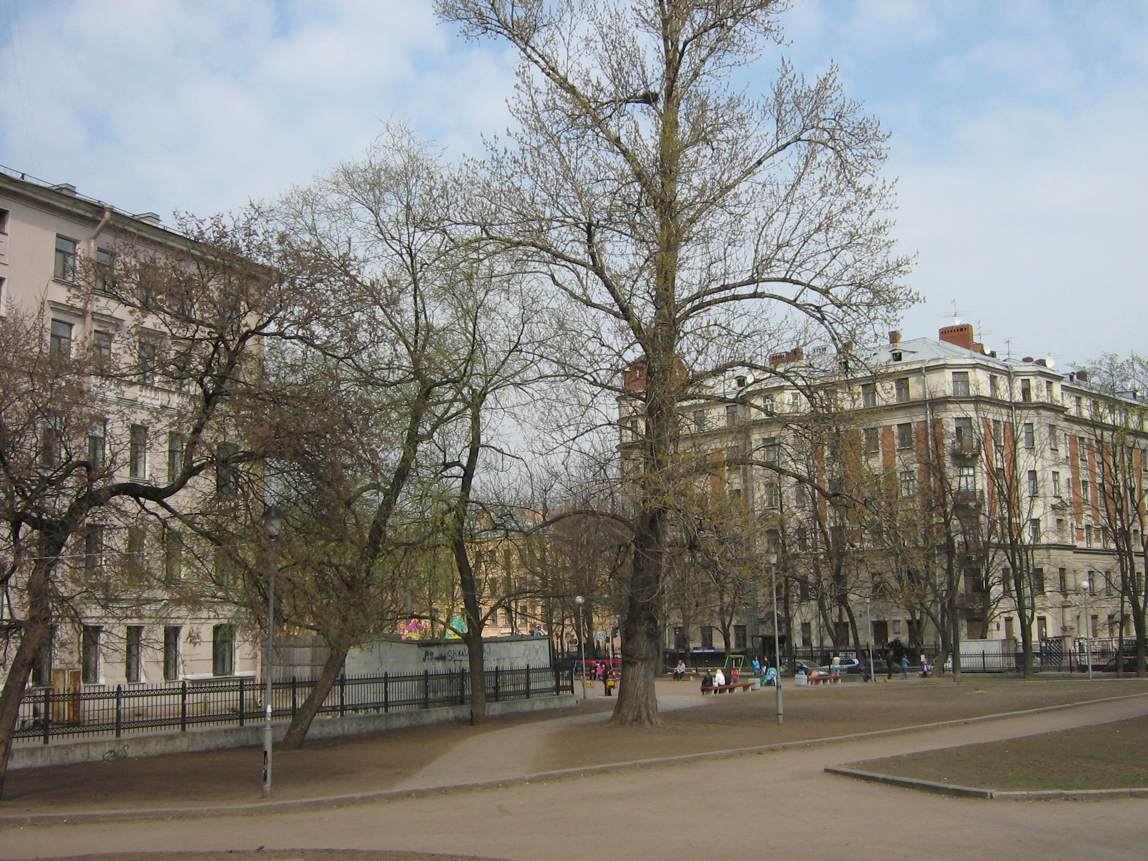 Matveevsky garden (Saint-Petersburg, Russia)